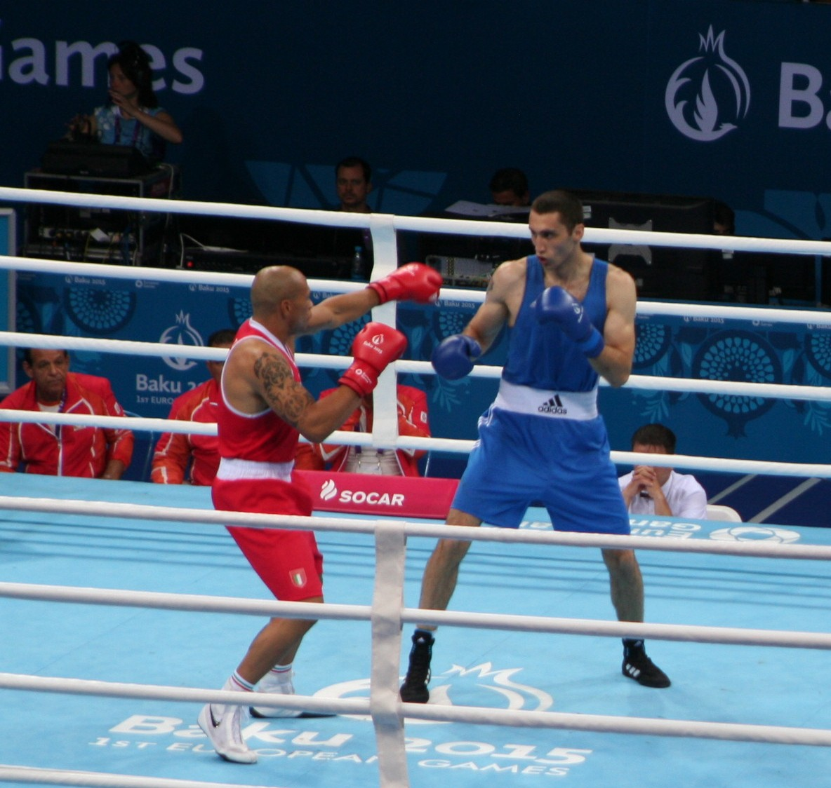 Teymur Mammadov vs Valentino Manfredonia at the 2015 European Games (Final)